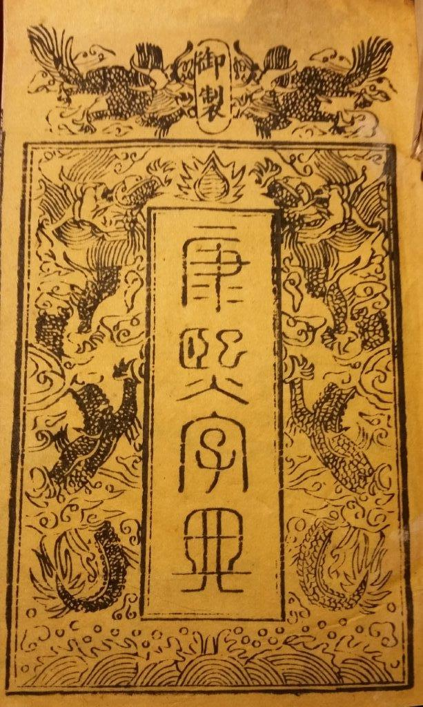 Frontispiece of the 1827 (3rd) edition of the Kangxi Chinese Dictionary